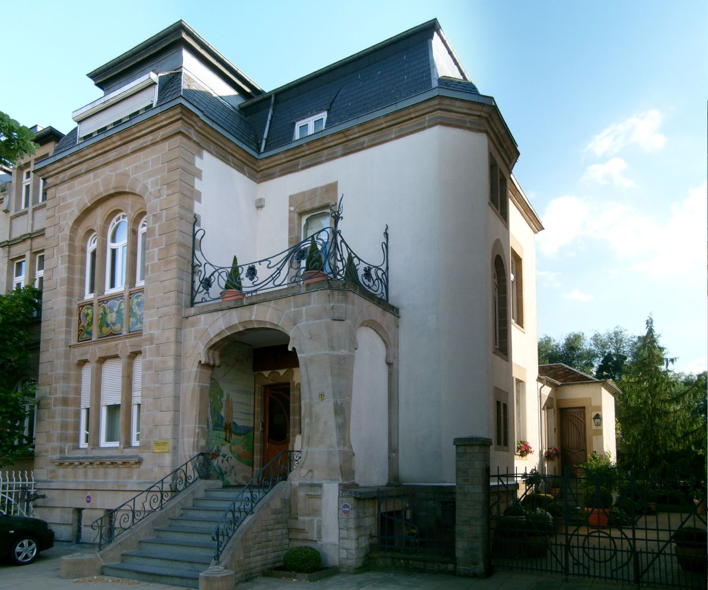 Luxembourg, Mondorf-les-Bains: Art Nouveau building at 8, avenue des Bains.